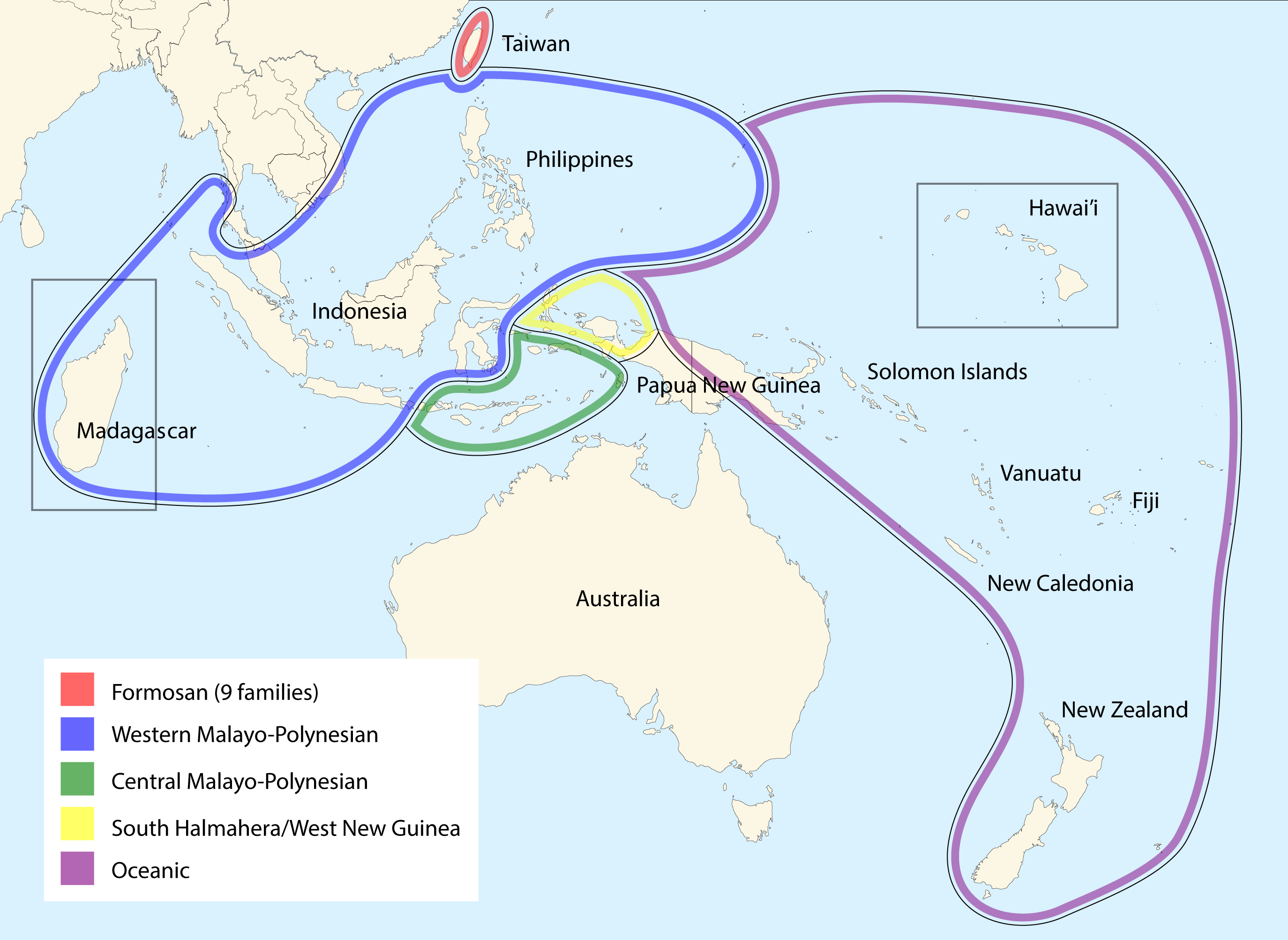 Map showing the distribution of the Austronesian languages and primary subdivisions. Map data from: . Language data from: Blust, R. (2013). The Austronesian languages. Rev. ed. Asia-Pacific Linguistics Open Access monographs, A-PL 008. Canberra, ACT: Asia-Pacific Linguistics.